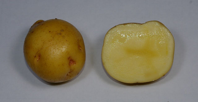 A potato tuber. cultivar:Kitaakari. Photo by Fk